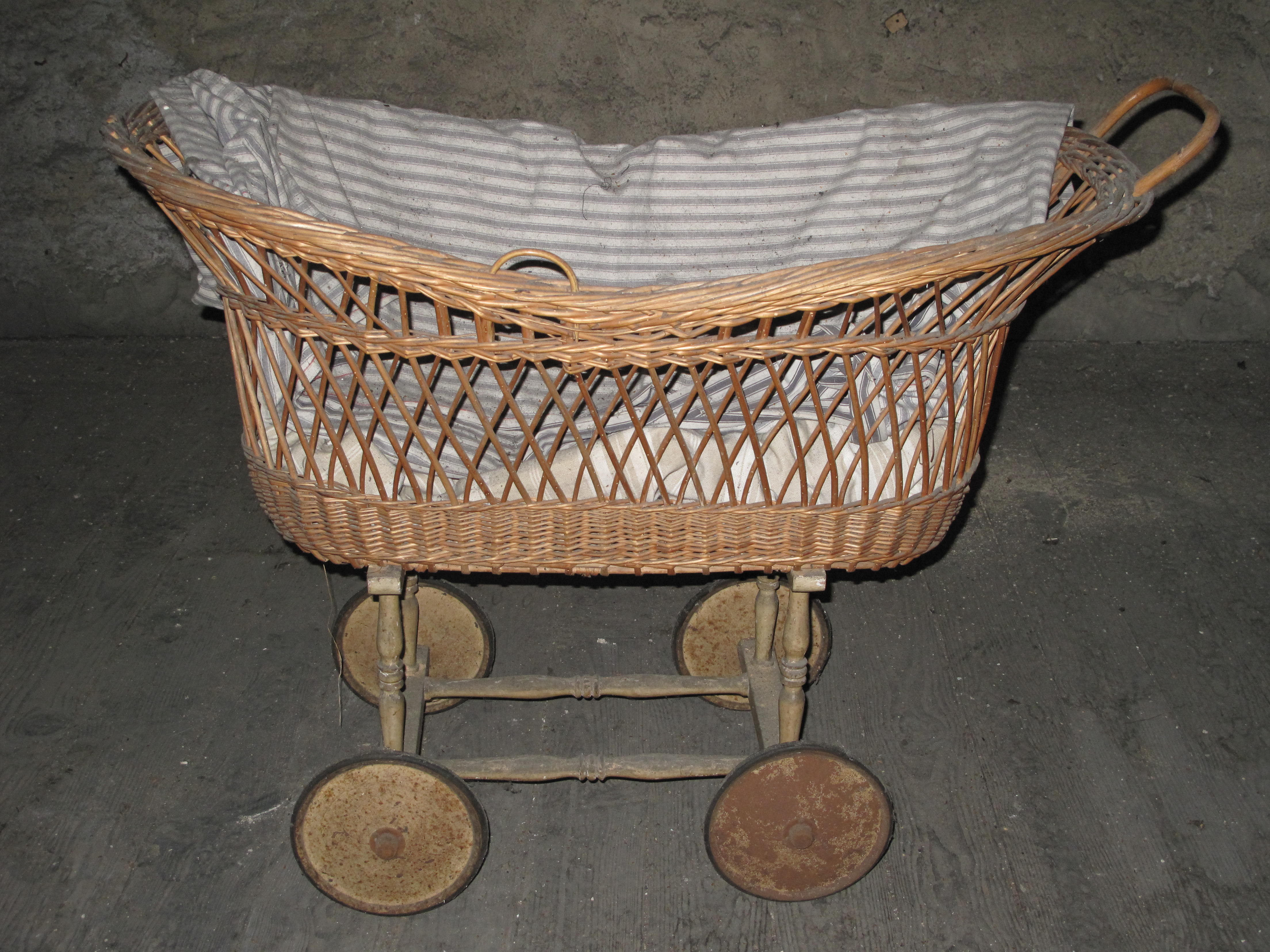 Ancient baby car in wicker. France, circa 1920.